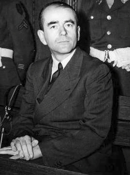 Albert Speer, Minister of Production, at the Nuremberg War Crimes Trials. Donor: Robert Jackson. Subjects (ARC): Nuremberg Trial of Major German War Criminals, * Nuremberg, Germany, 1945-1946; Soldiers Subjects (HST): Nurnberg Trials; Germany - Nurnberg People: Speer, Albert, 1905-1981 Accession number:72-929 Date: ca. 1946 Restrictions: Unrestricted Physical Size: Original image is 7.25x9.25 inches. This is a cropped version. The original image is located at File:Albert-Speer-72-929.jpg Color: Black & White Cropped: yes Photographer: Alexander, Charles Relation: Institutional Creator: Office of the United States Chief of Counsel